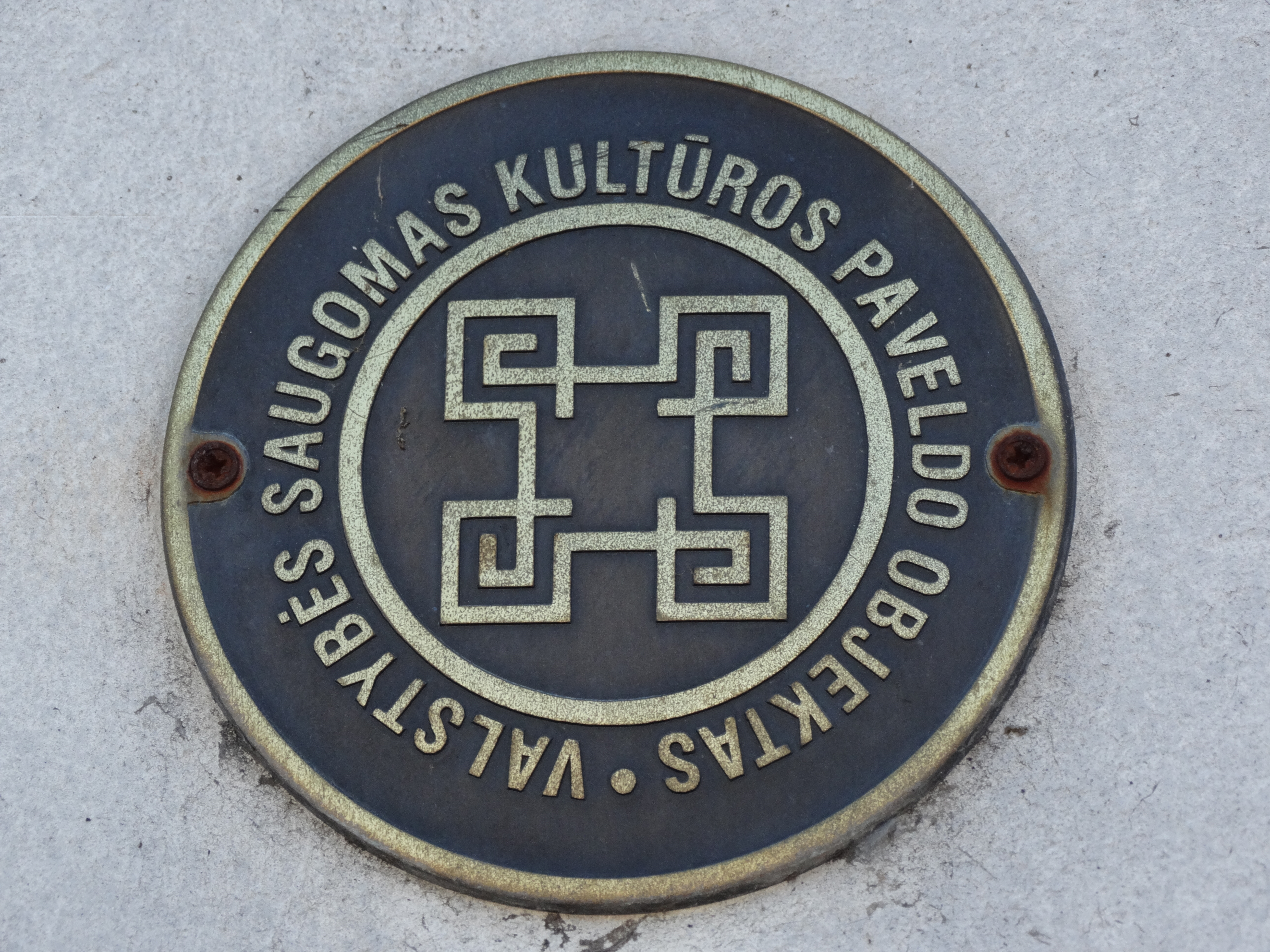 Cultural heritage sign, Lithuania